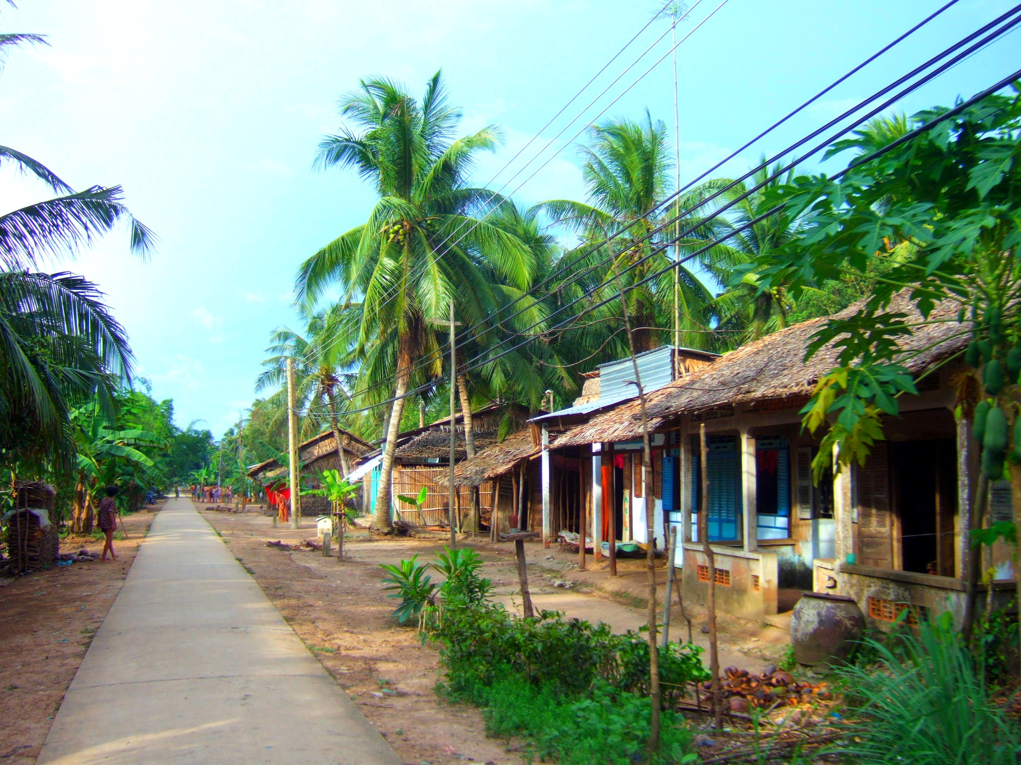 rural area in the Mekong Delta, Soc Trang province, Vietnam